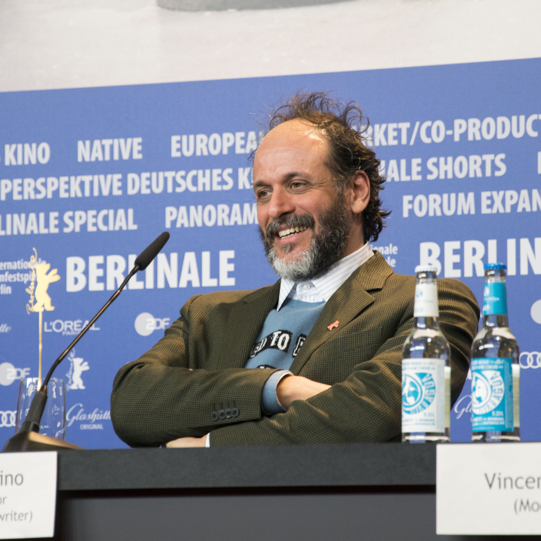 Luca Guadagnino at the press conference of the film Call Me by Your Name at the 2017 Berlin International Film Festival